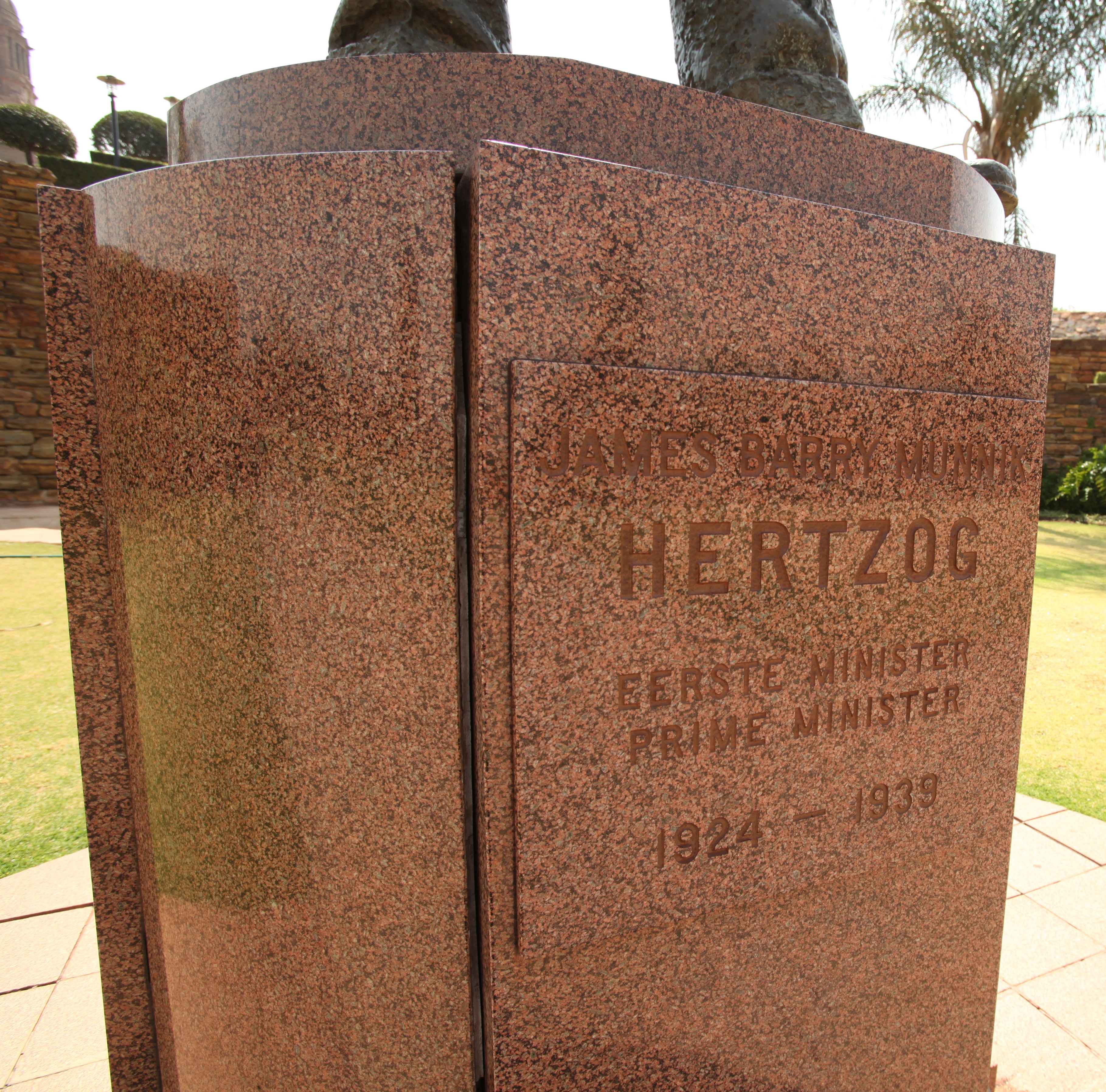 Union Buildings, Meintjieskop, Pretoria This media shows a South African Protected Site with SAHRA file reference 9/2/258/0067.